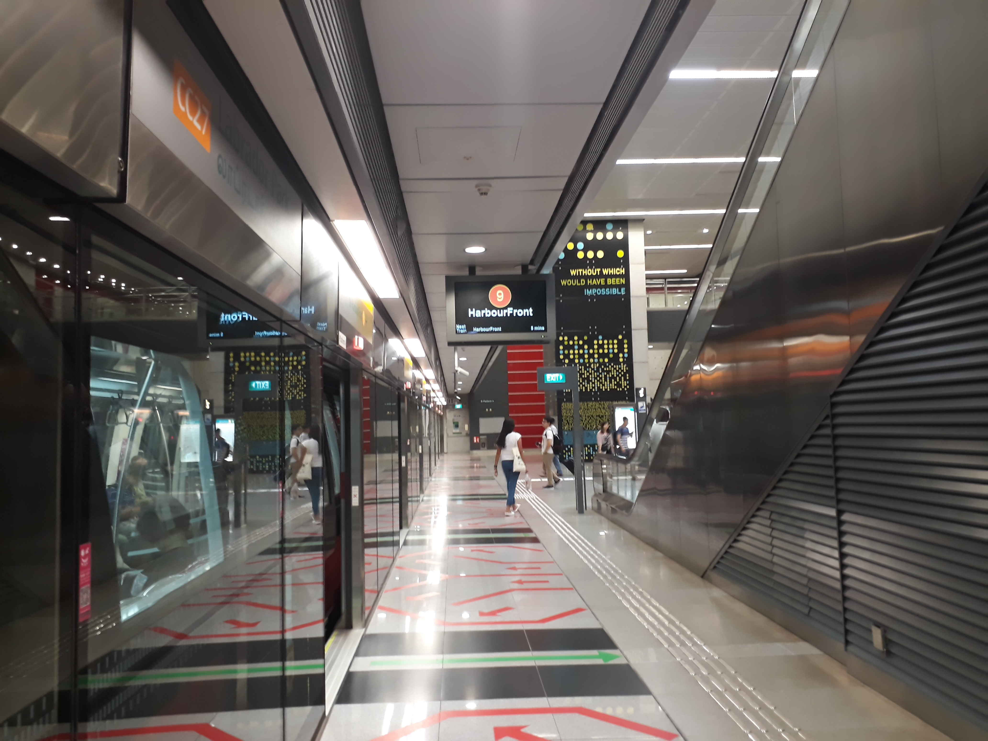 Labrador Park Platform A